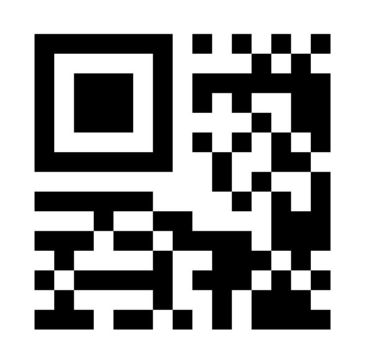 Micro QR Code. Data content: "Wikipedia". ECC Level "L".